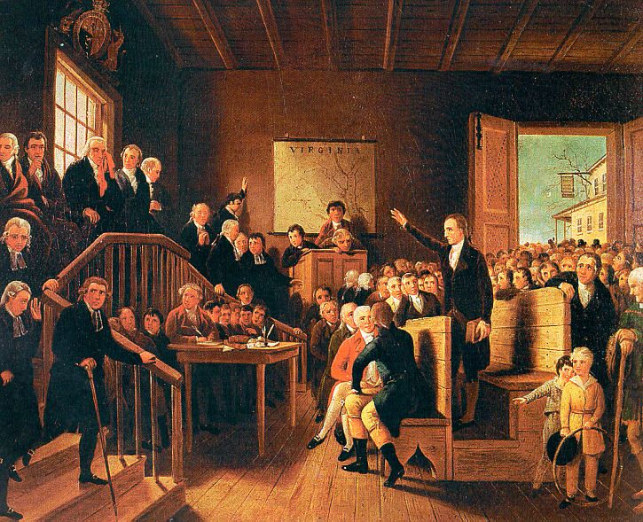 Patrick Henry arguing the "Parson's Cause"